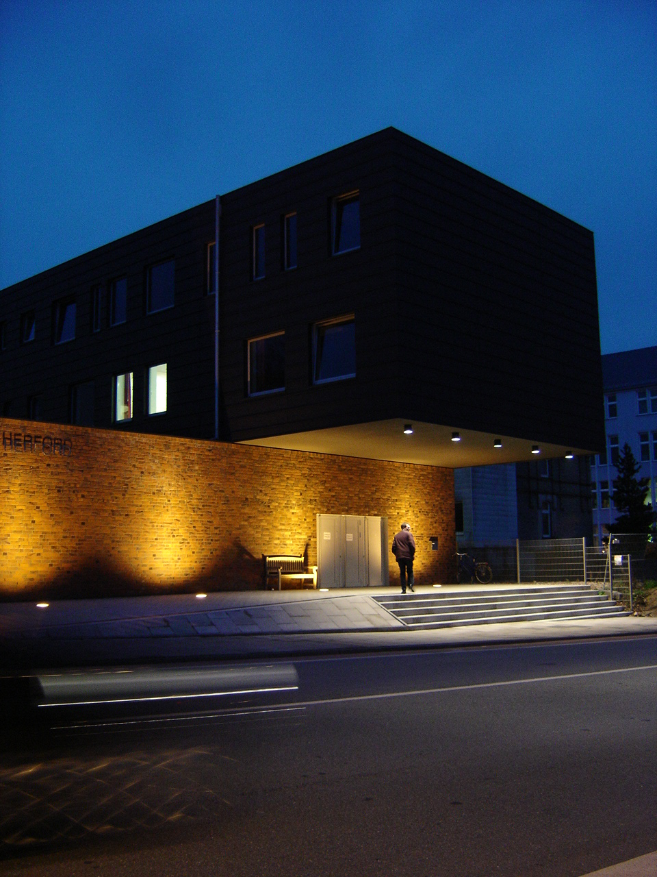 Music school in town of Herford, District of Herford, North Rhine-Westphalia, Germany.